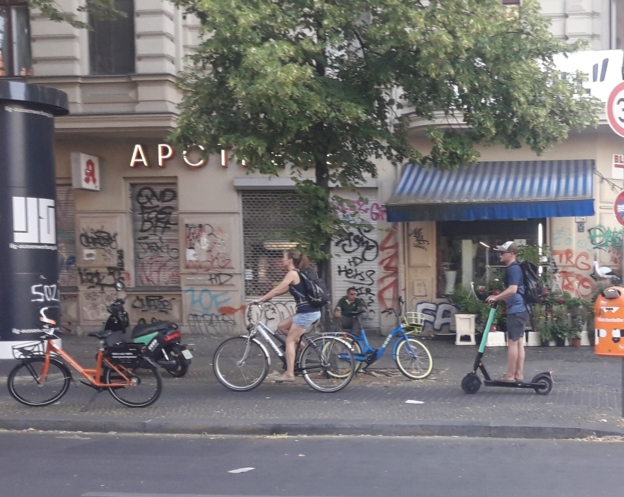 Bicycle and Tier Mobility electric scooter riders on a sidewalk in Berlin with parked bicycles.